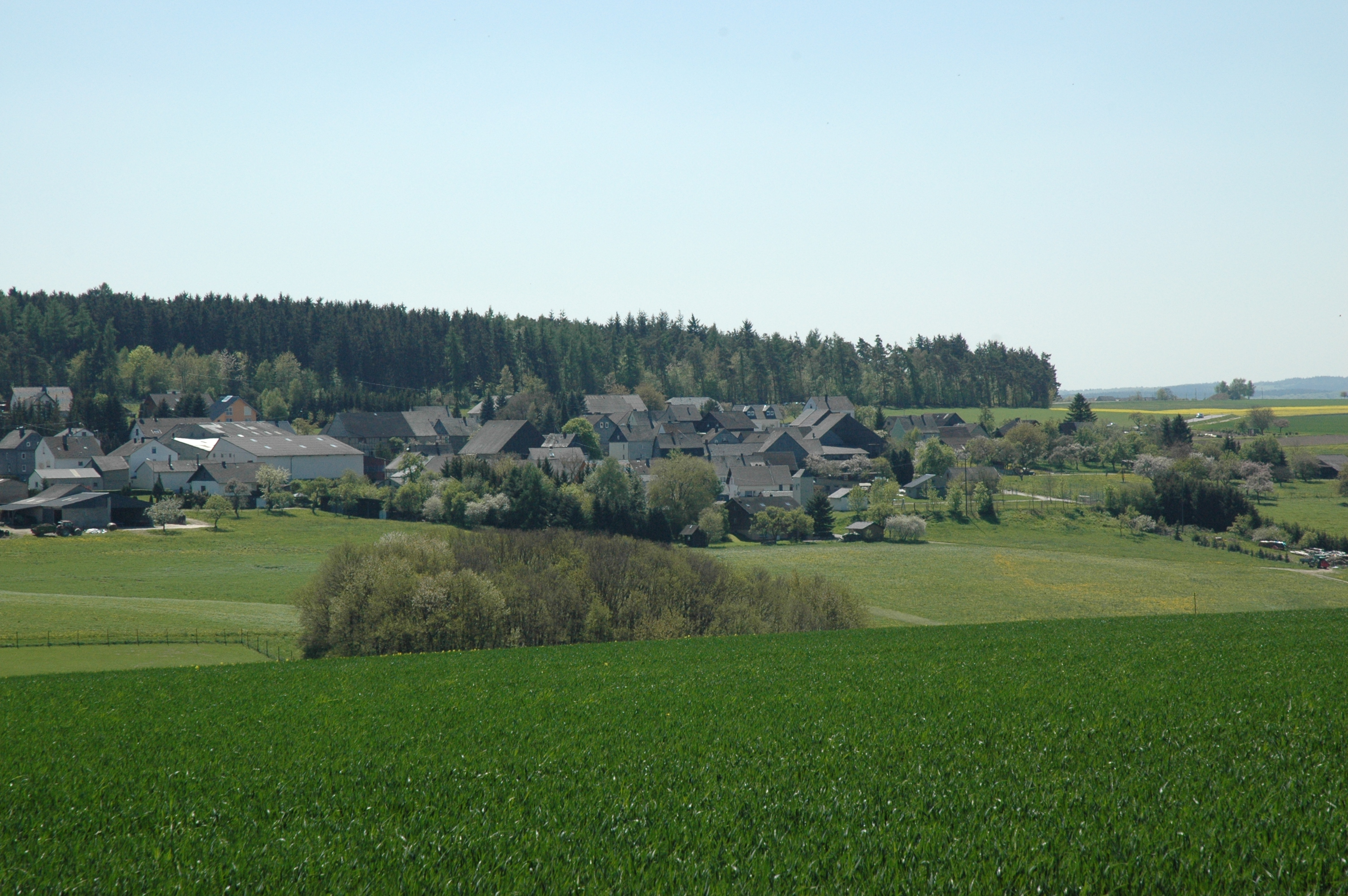 Village Hecken in the Hunsrück landscape, Germany